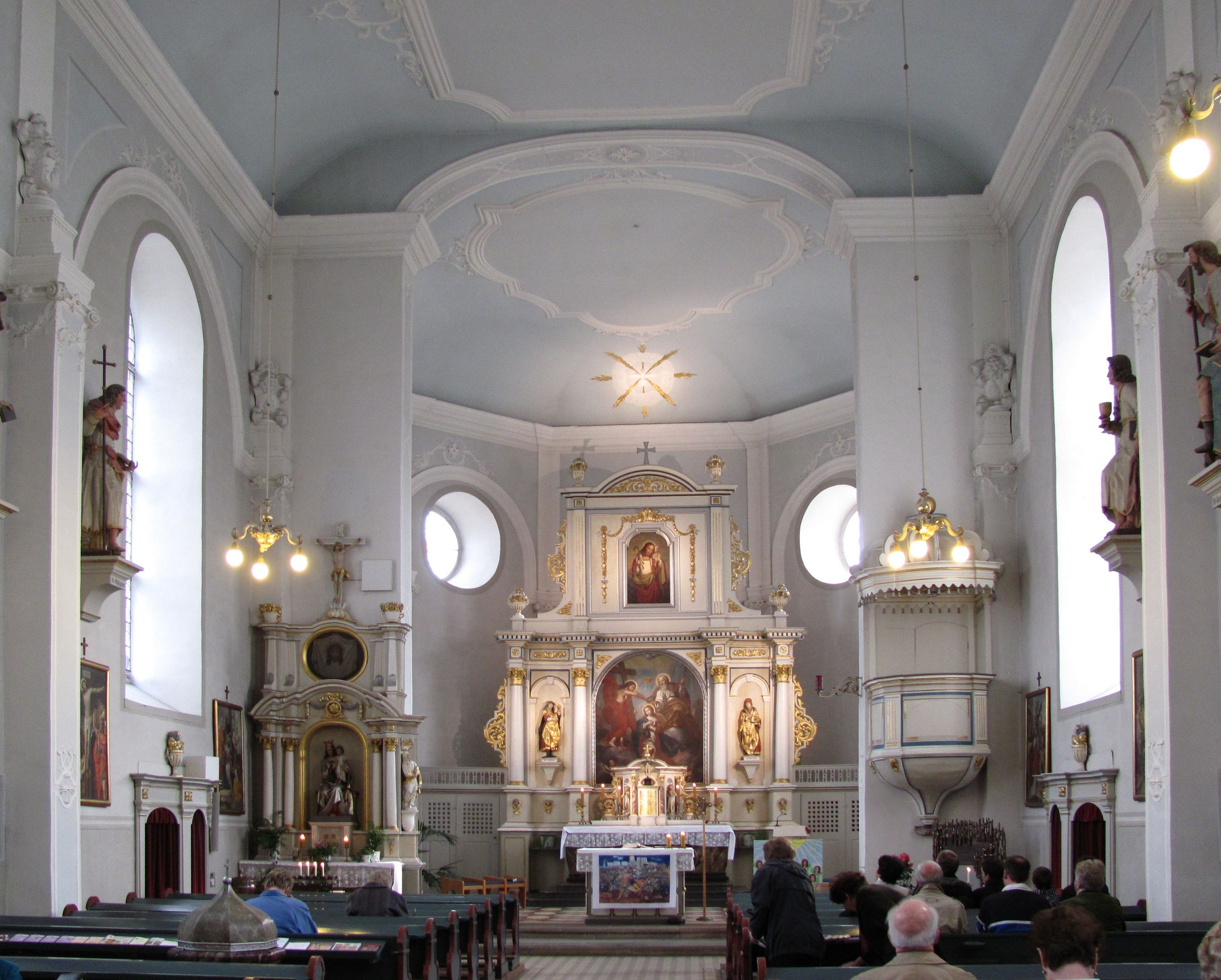 Catholic Church, Bad Salzdetfurth-Groß Düngen, Lower Saxony, Germany